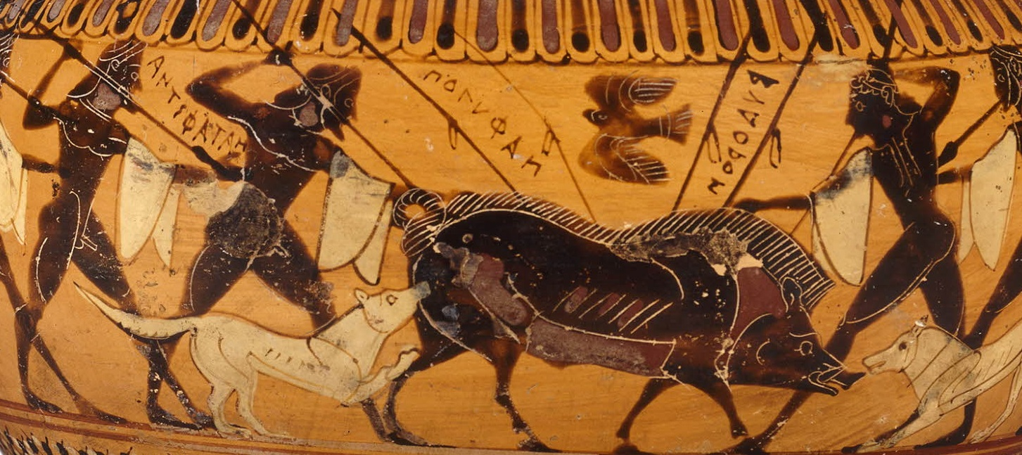 Image from a Krater depicting an ancient boar hunt